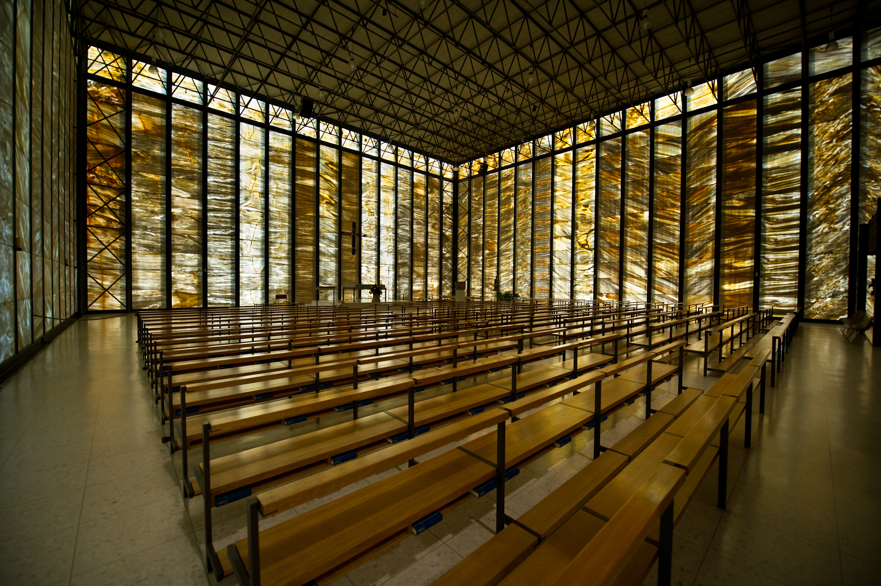 St. Pius Church, Meggen, LU, Switzerland.